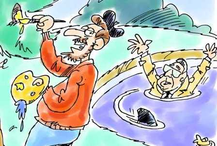 "Zapfenstreich" (Detail, Lyrikillustration, I.Astalos) by permission of the author